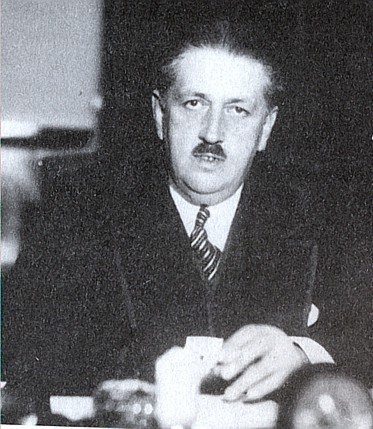 Jan Szembek, Polish Diplomat, Secretary of state in Ministry of Foreign Affairs of Poland 1933-1939, died 1945